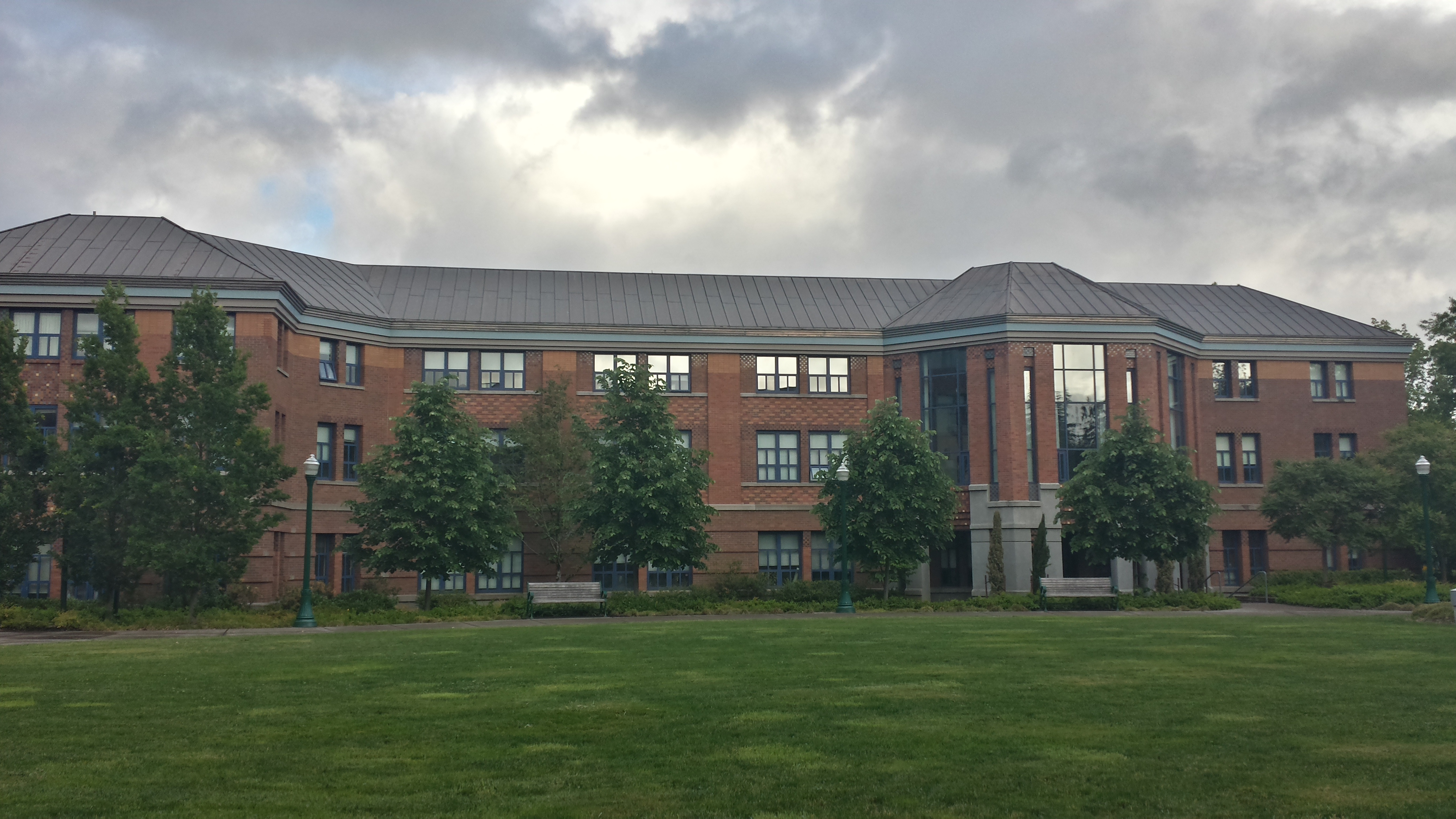 The front of Deschutes Hall, home of the Computer and Information Science department at the University of Oregon.